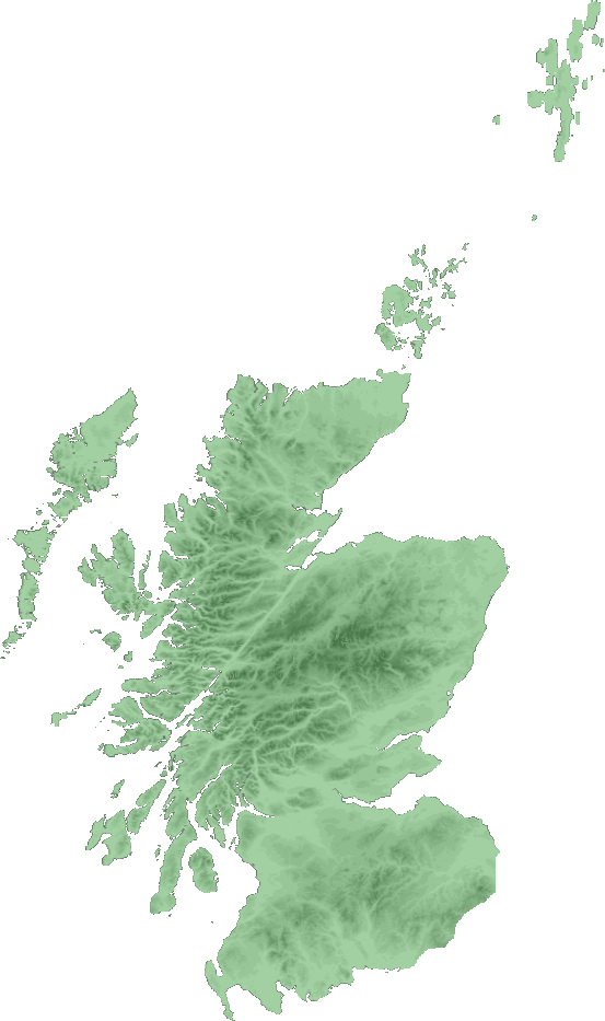 Template image for Scottish location maps, high resolution (not for use in infobox).